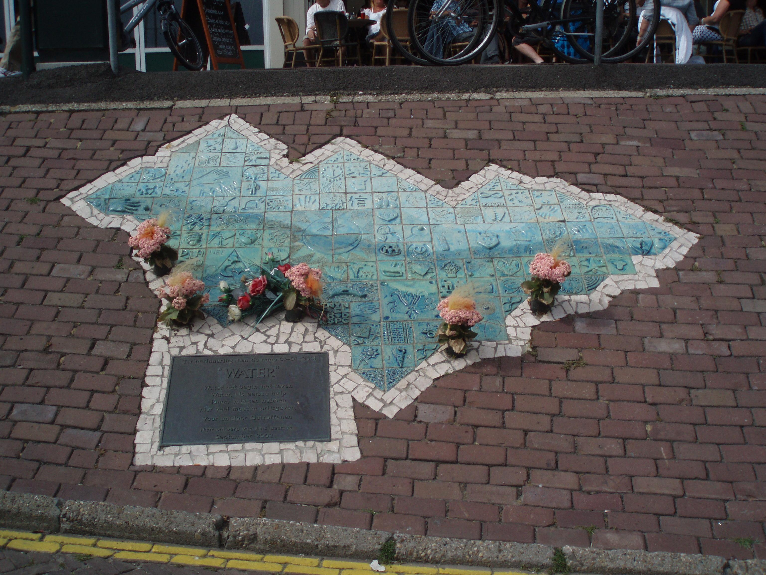 Monument as a reminder of the fire in Volendam in the new year's night of 2000 to 2001.